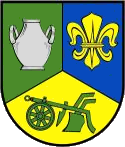 Coat of arms of Zettingen